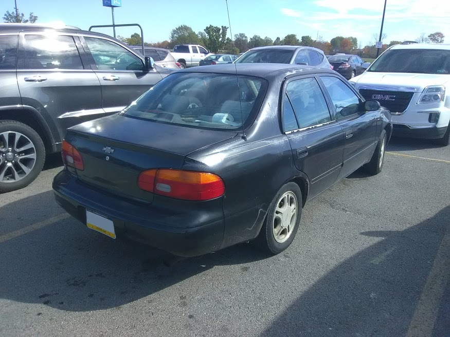 1998-2002 Chevrolet Prizm photographed in New Castle, Pennsylvania